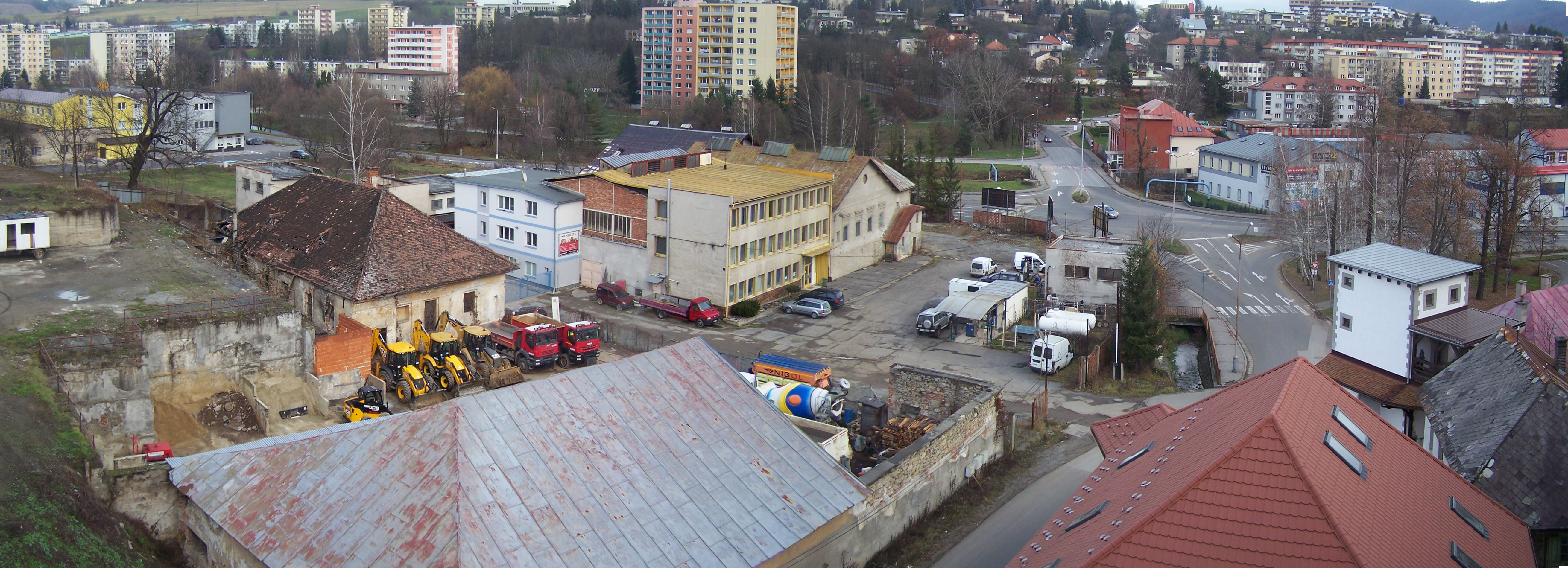 panoráma